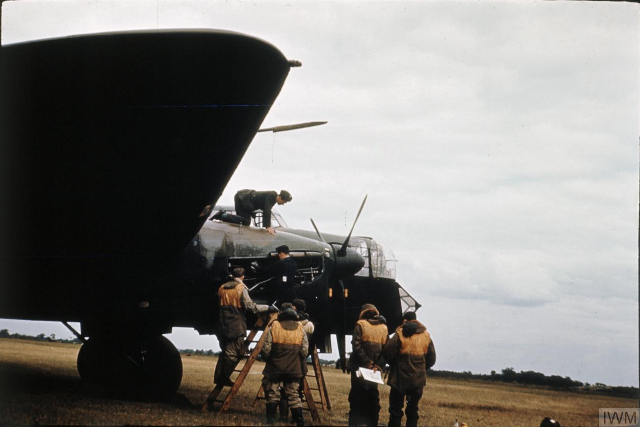 The Royal Air Force in Britain, July 1941 A crew of No 78 Squadron, Royal Air Force watch as engine adjustments are made to an Armstrong Whitworth Whitley bomber Z6743 before they take off for a raid from Middleton St George, Durham.